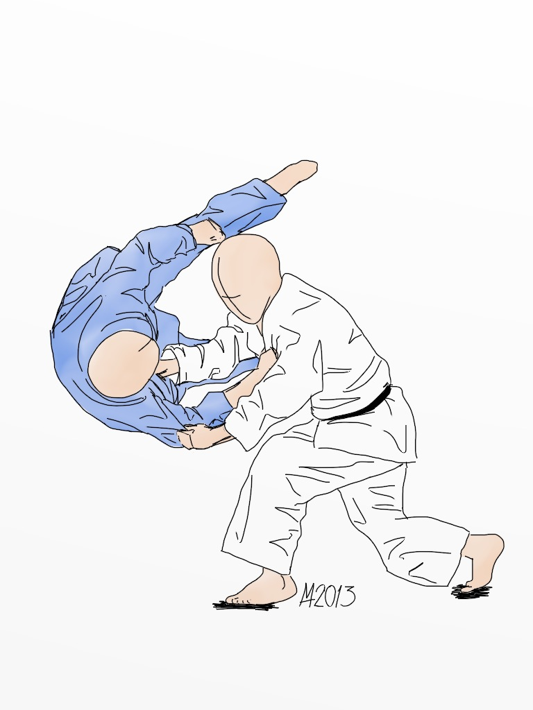 Sumi-otoshi judo technique illustration by Michael Hultström.